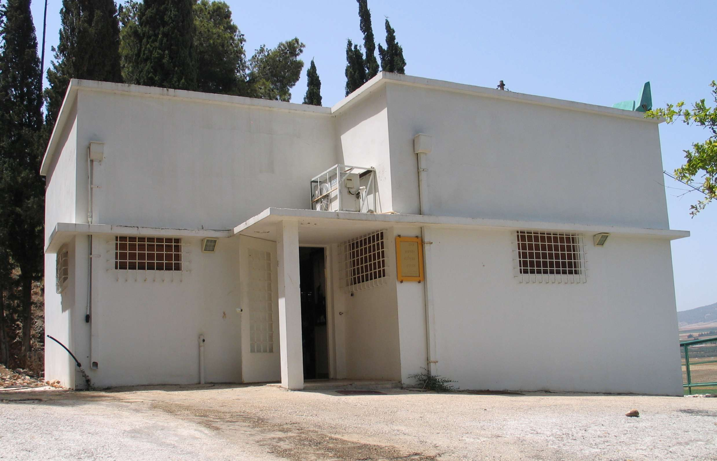 Yehoshua Hankin's house and tomb, Maayan Harod.